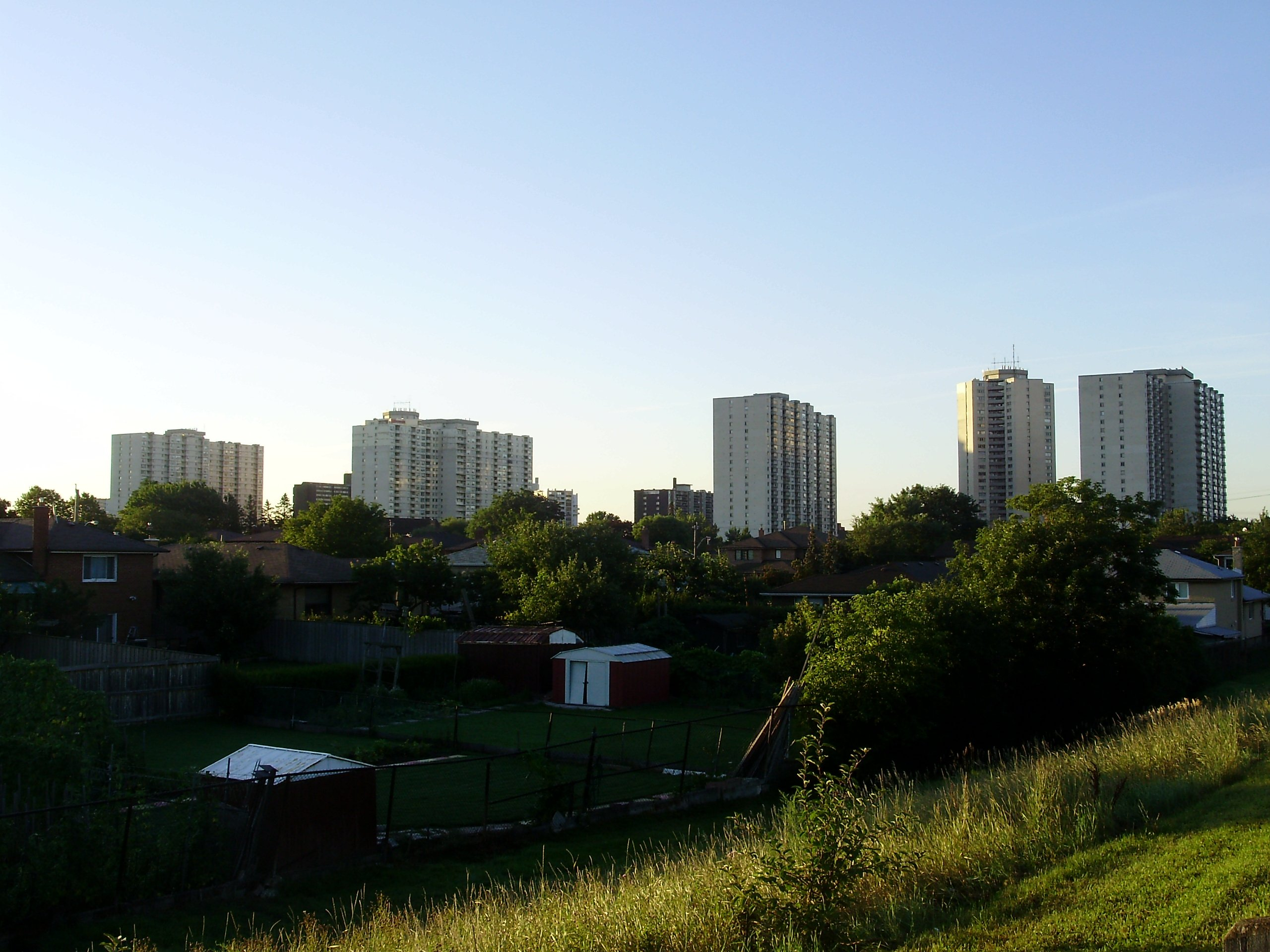 The Toronto neighbourhood of Kingsview Village-The Westway combines apartment towers and single-family homes. Photographed from Kipling Avenue, just south of Highway 401.